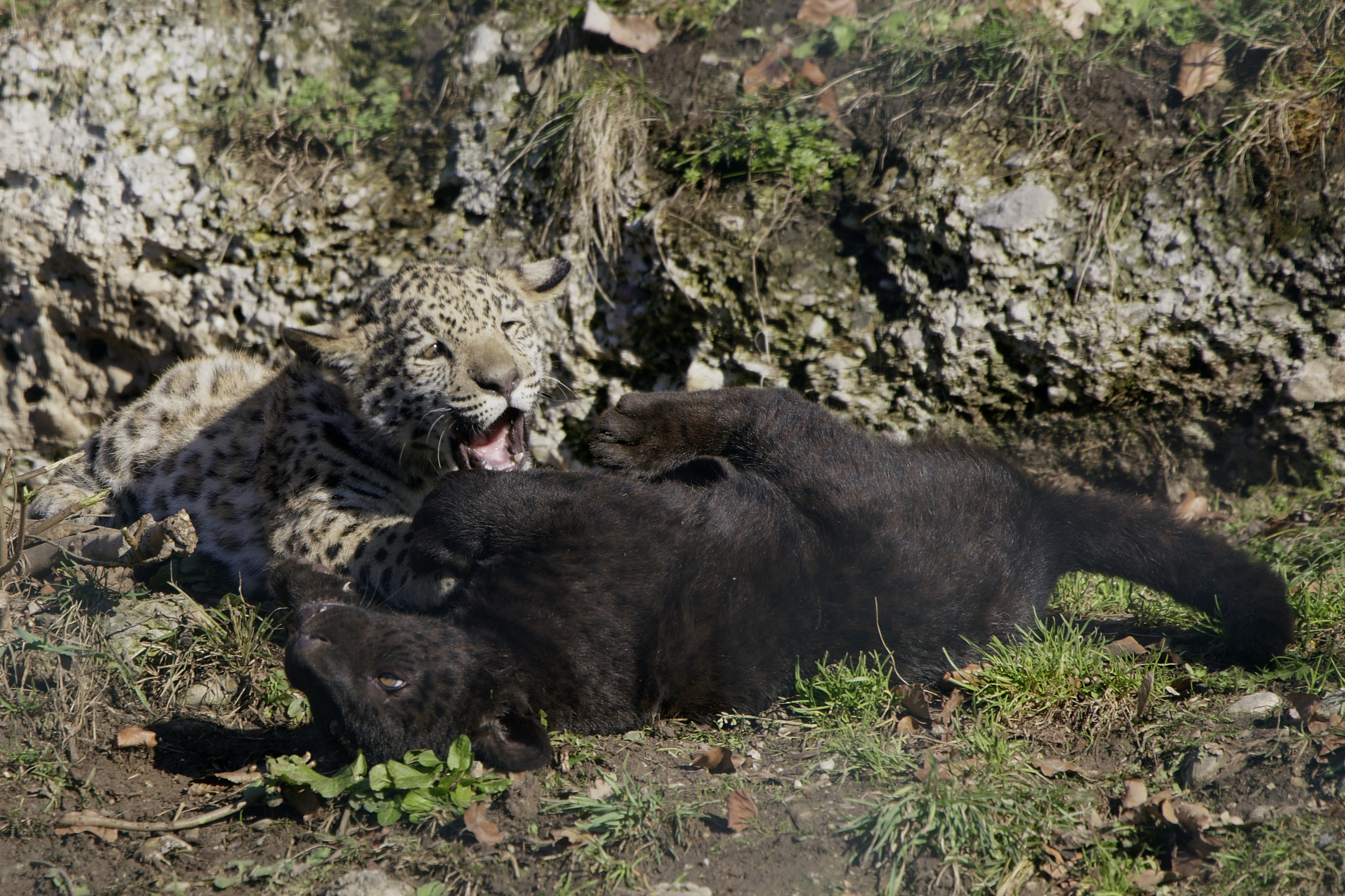 Young (4 months) jaguars at zoo Salzburg. Born at 2009-08-31 photographed at 2009-12-26